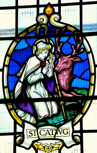 St Catwg in stained Glass, from St Martin's parish church, Caerphilly. The window dates from 1953